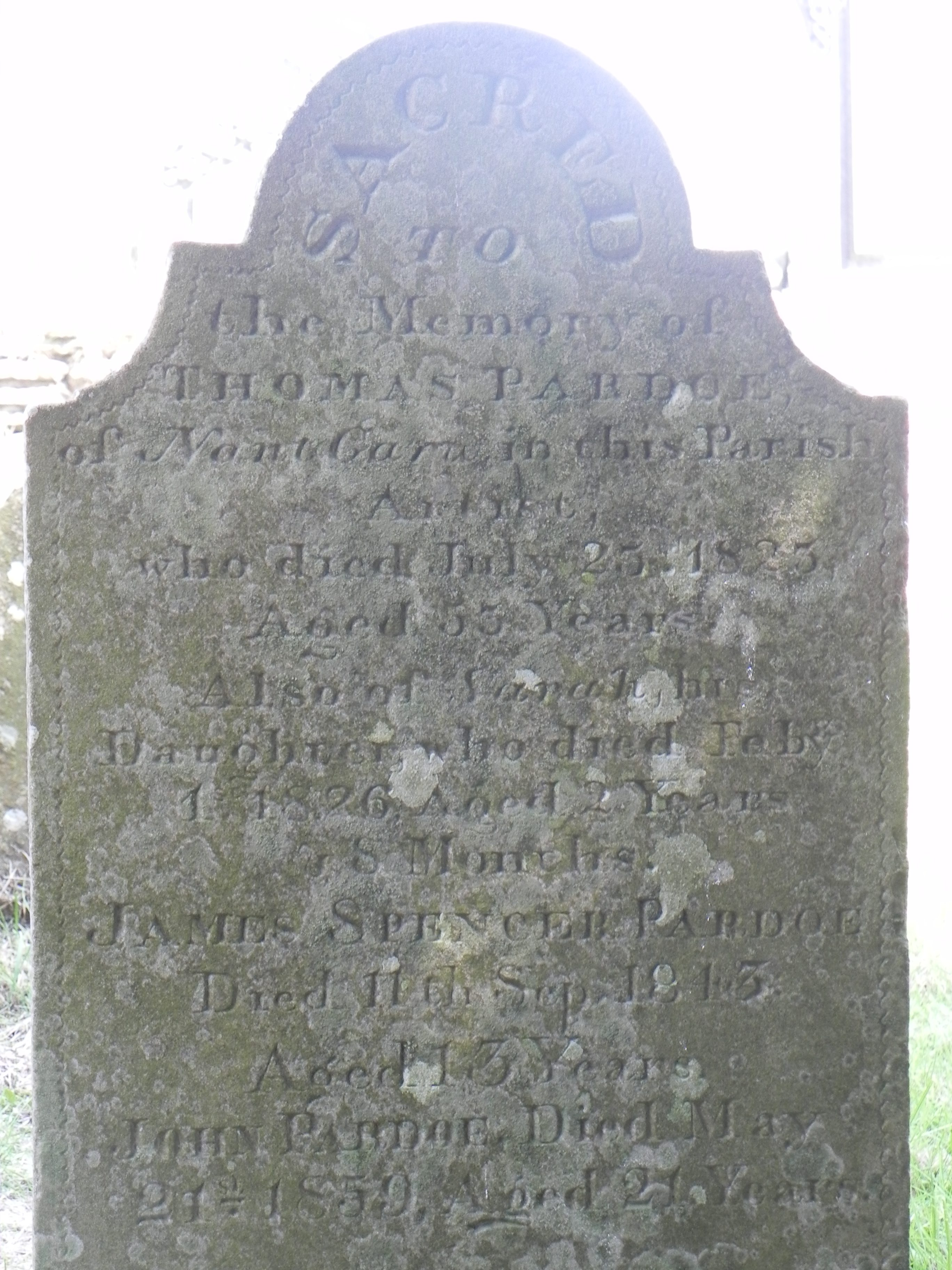 Gravestone